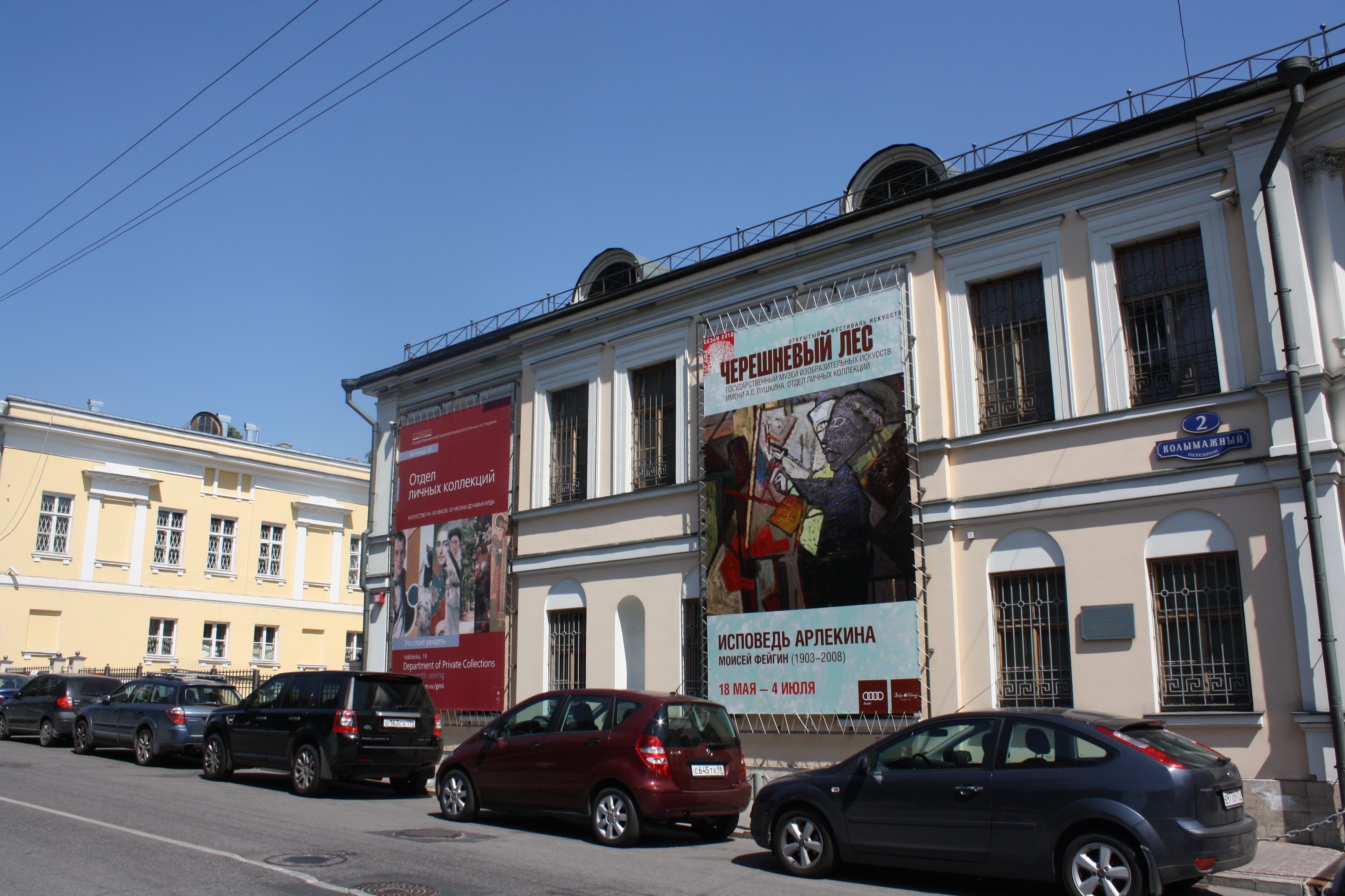 Street facade of the Pushkin Museum of Private Collections building — on Kolymazhny Lane, Moscow.